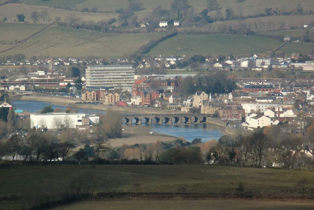 Long Bridge and surrounding buildings, Barnstaple, Devon, England